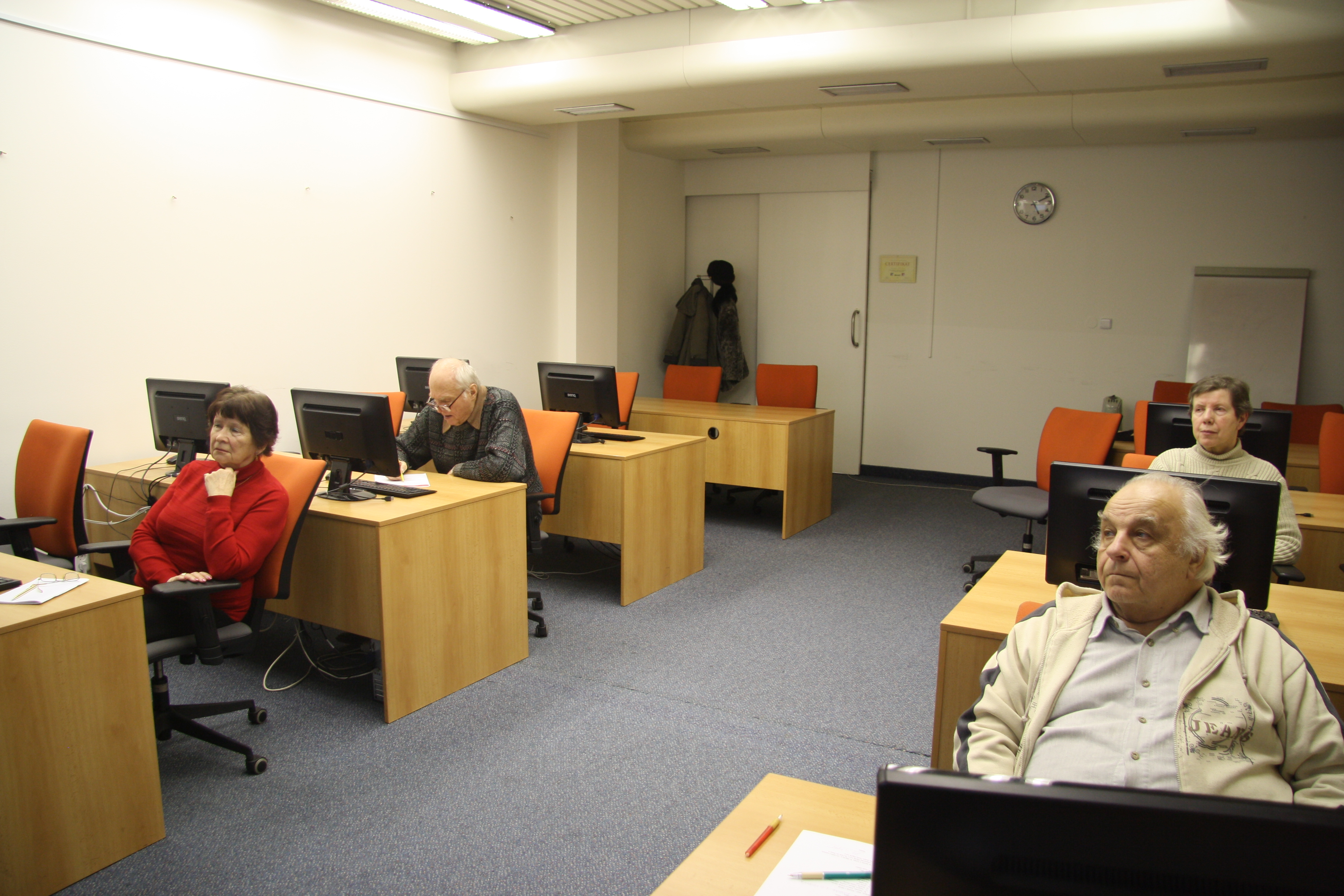 Senior citizens Write Wikipedia in Center Elpida.